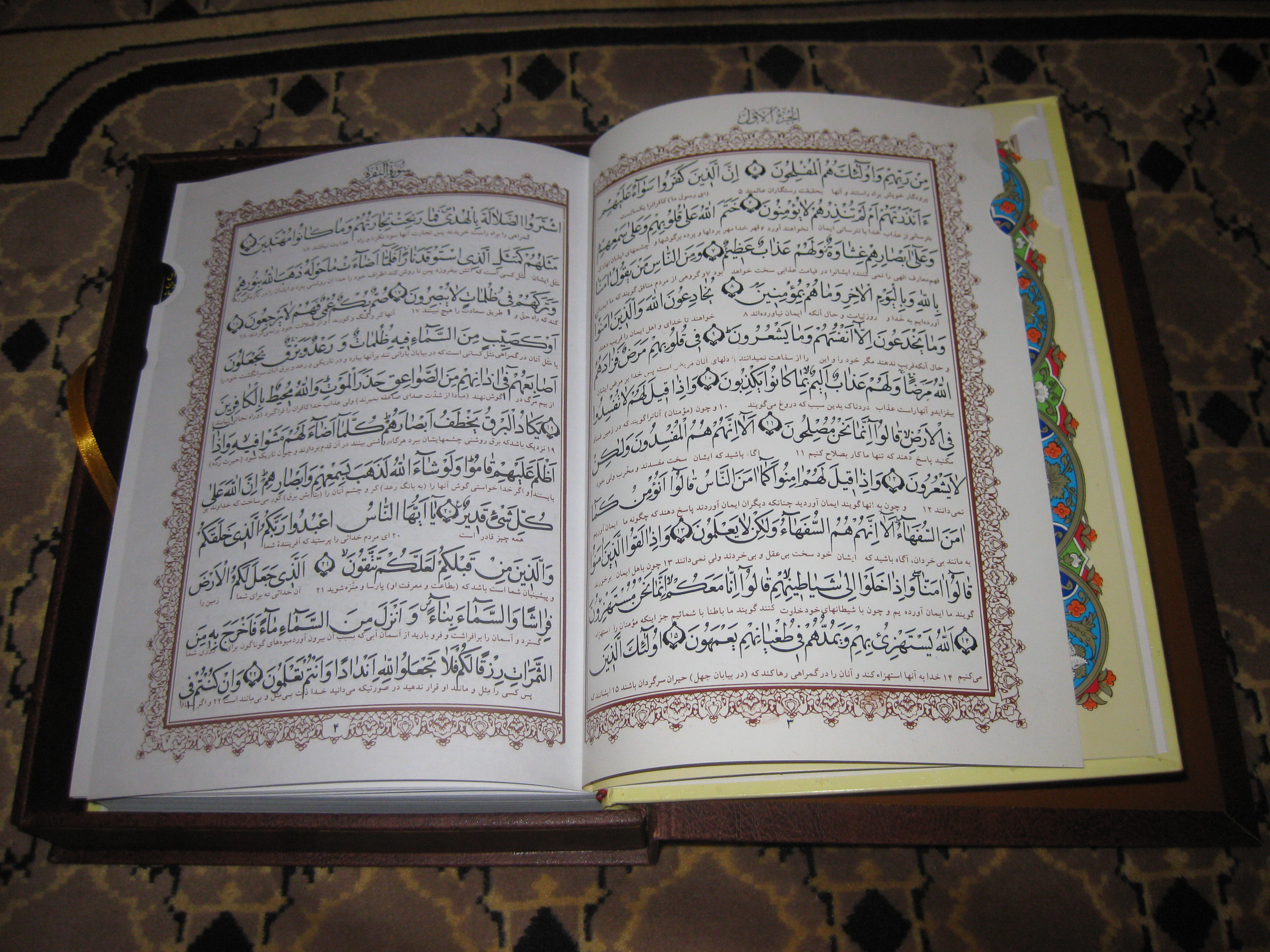 A modern Arabic Quran with Persian translation in Iran.